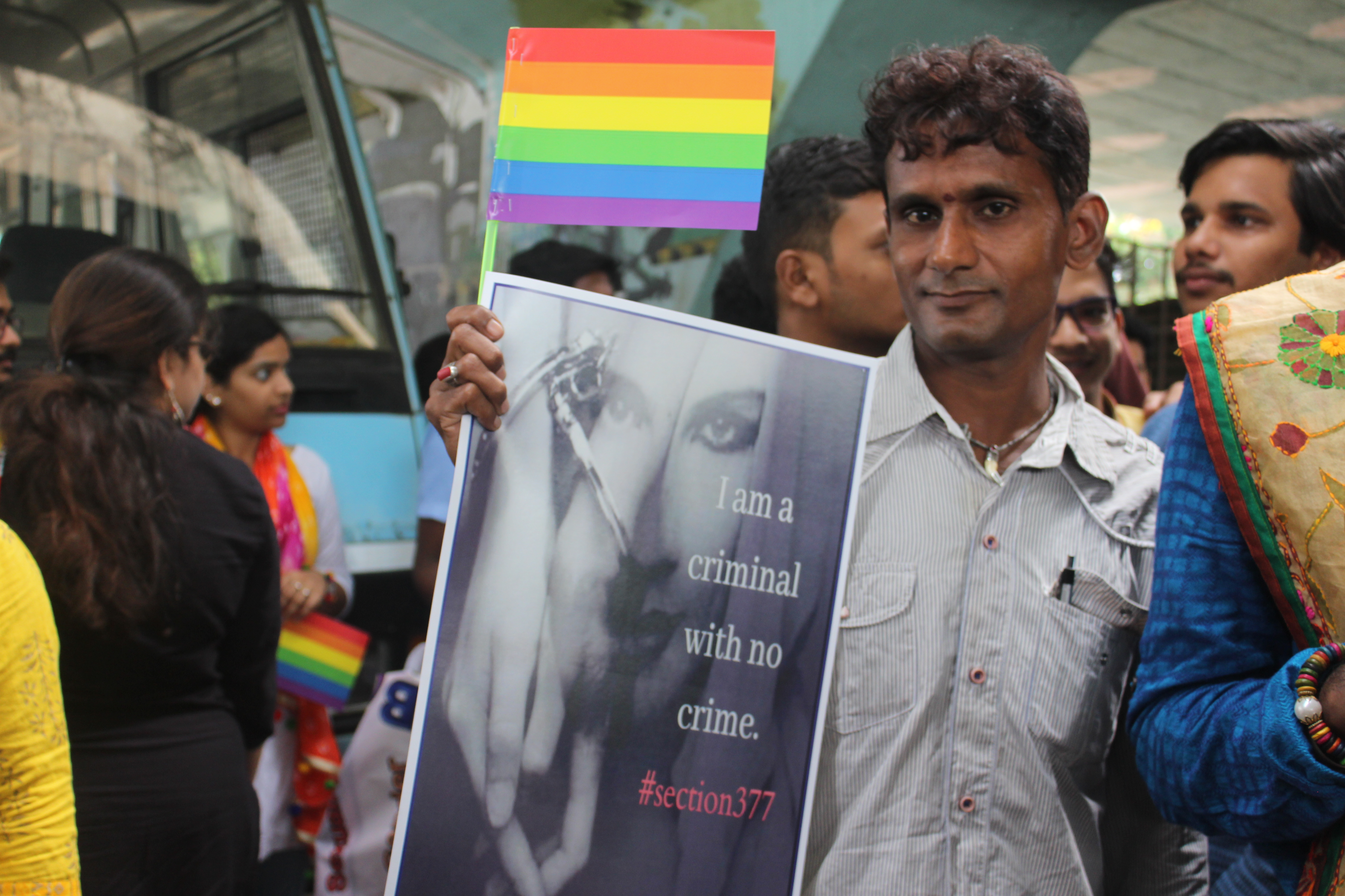 Participants and posters during Bhubaneswar Pride Parade.